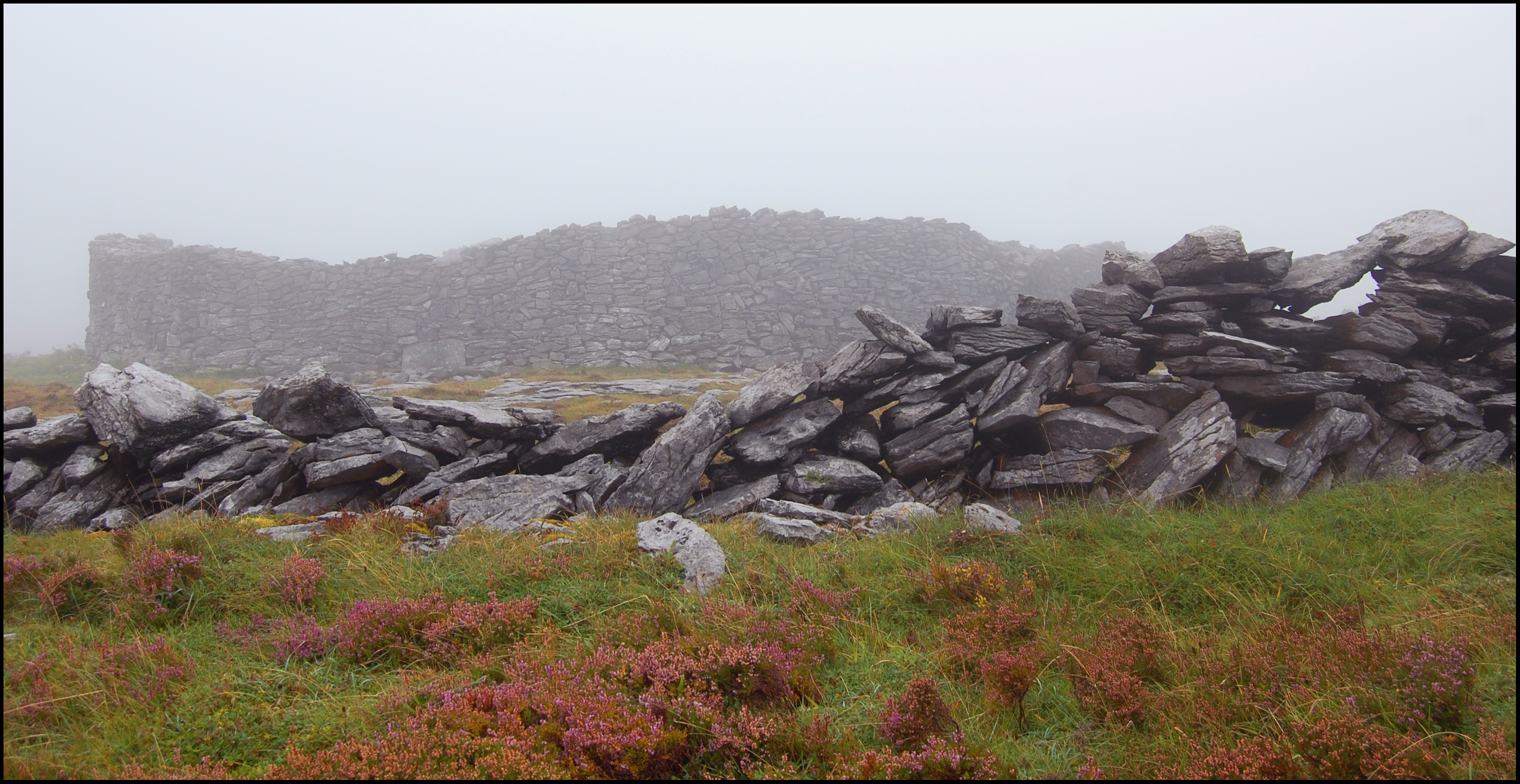 Caherdooneerish Ring Fort, the Burren, County Clare, Ireland.